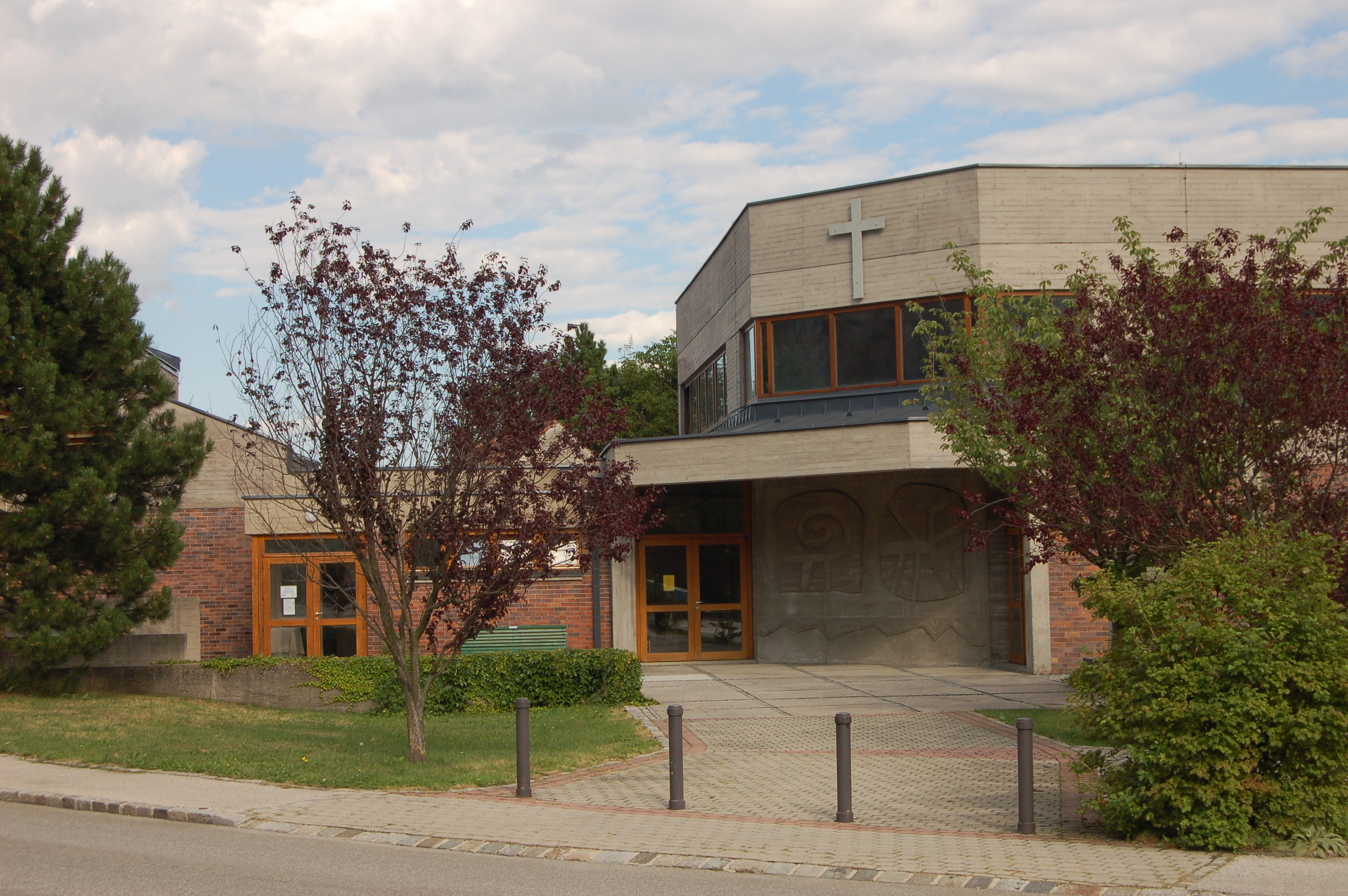 St. Joseph parish church at Winzendorf, Lower Austria